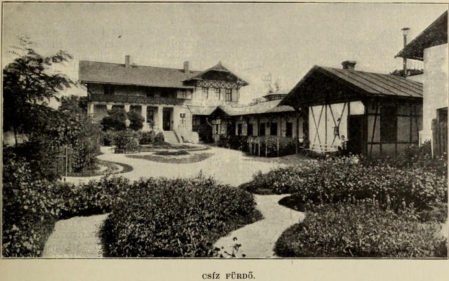 Public baths in Csíz